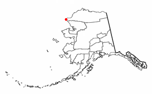 Adapted from Wikipedia's AK borough maps by Seth Ilys.